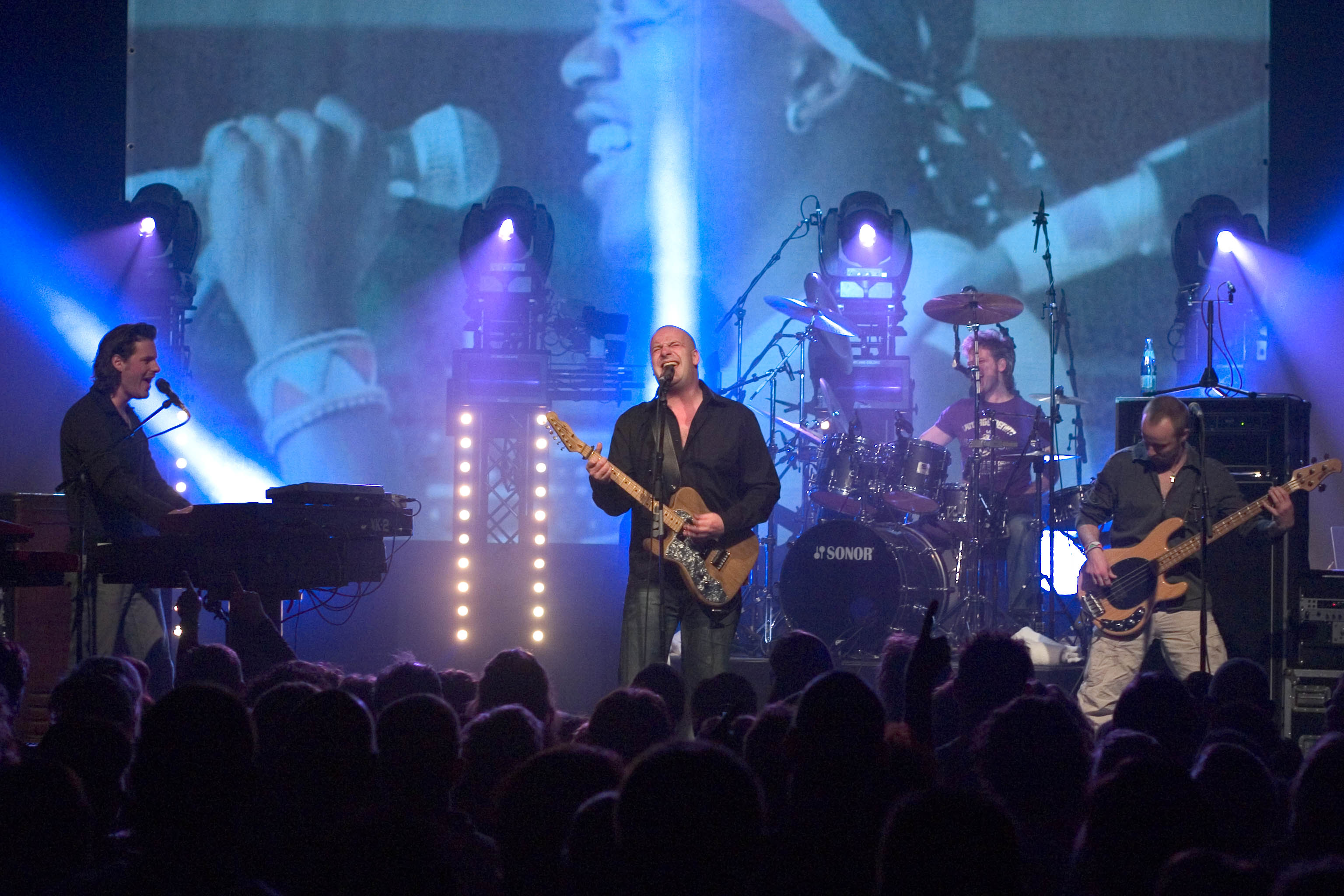 Bløf at a show in Emmen